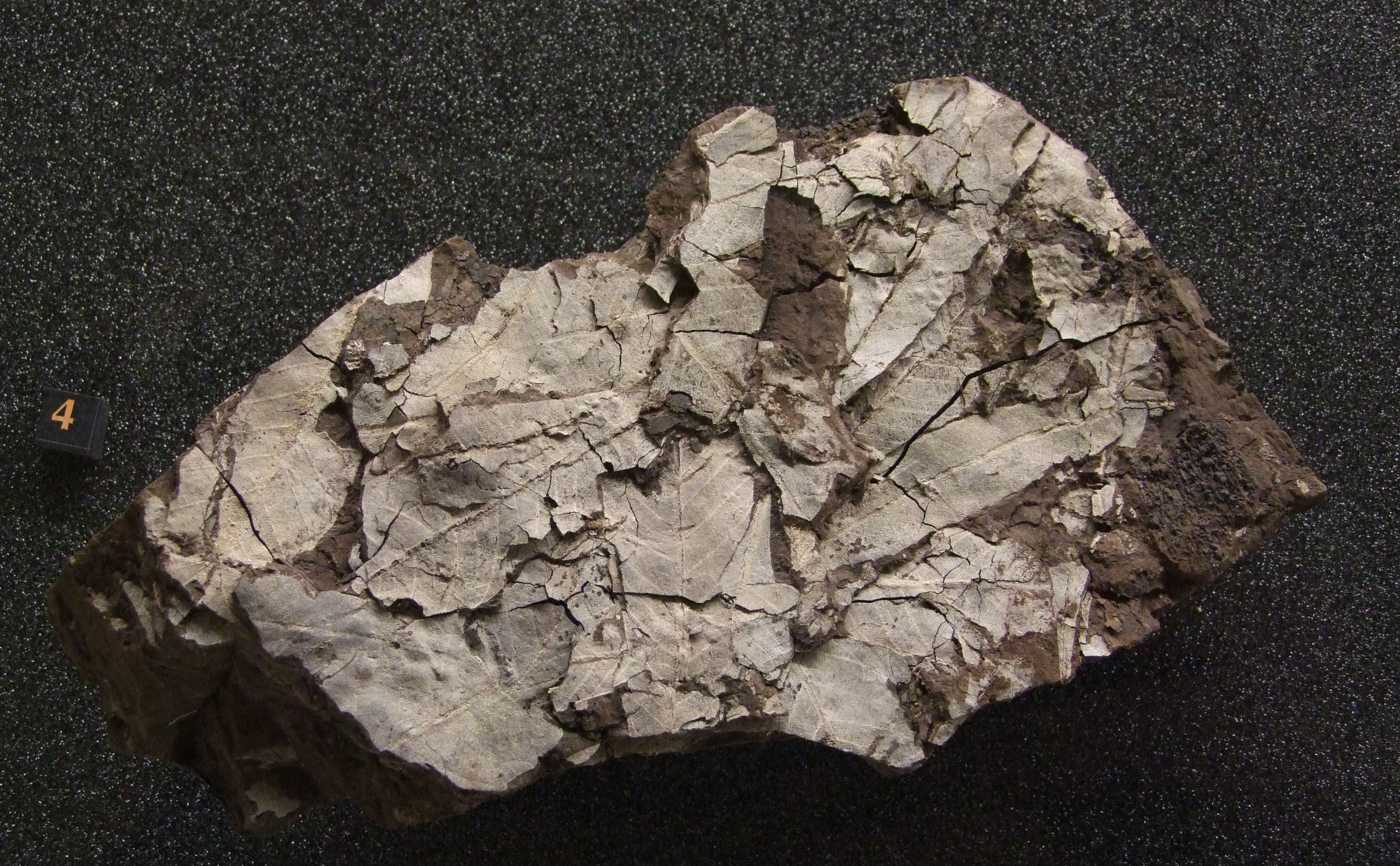 remains of Dryophyllum from the Eocene of the Geiseltal, Germany; took the picture in the Geiseltalmuseum, Halle (Saxony-Anhalt)